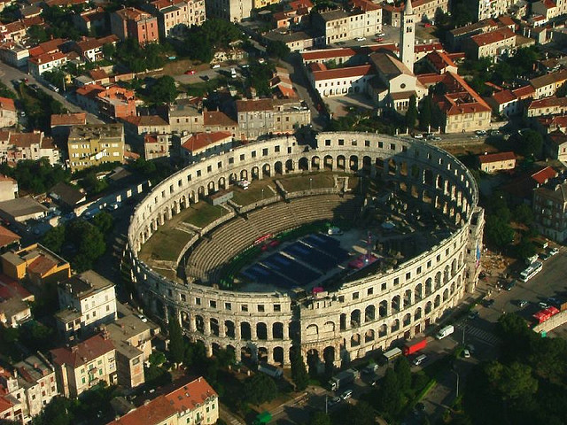 Aerial photo of the Pula Arena.